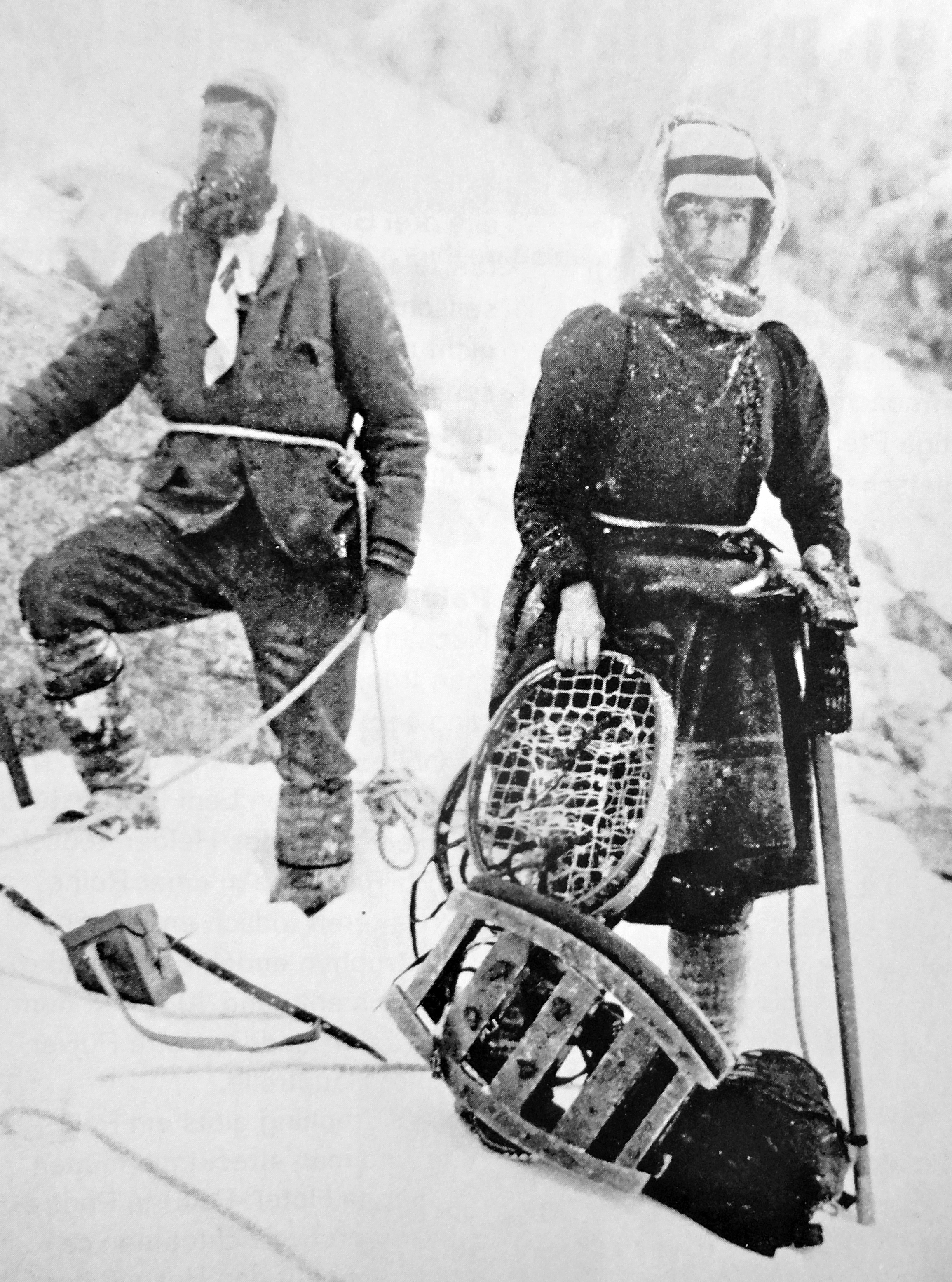 Elizabeth Alice Hawkins-Whitshed